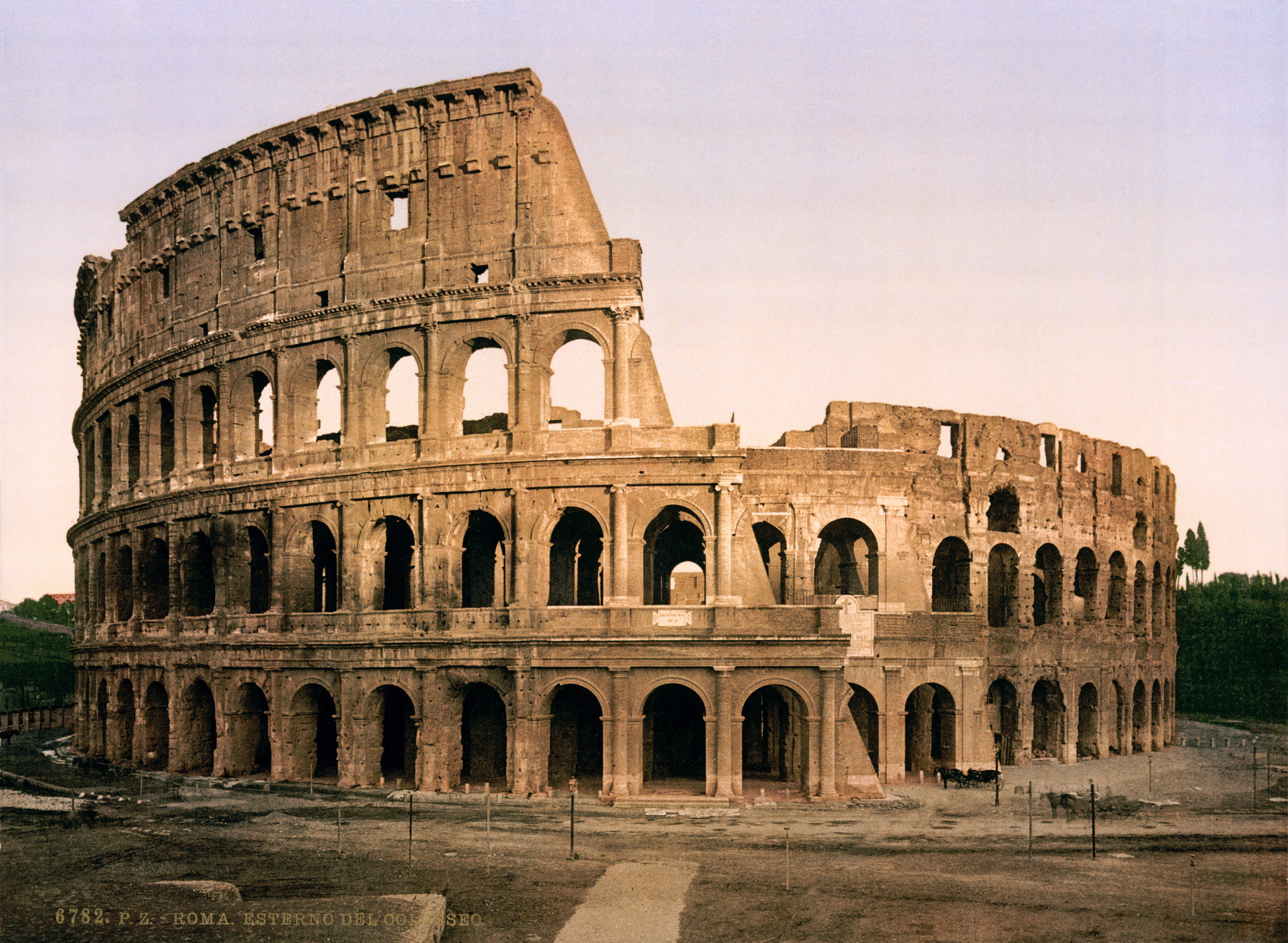 6782 P.Z. Roma, esterno del Coloseo. Photochrom print by Photoglob Zürich, between 1890 and 1900. From the Photochrom Prints Collection at the Library of Congress More photochroms from Italy | More photochrom prints [PD] This picture is in the public domain